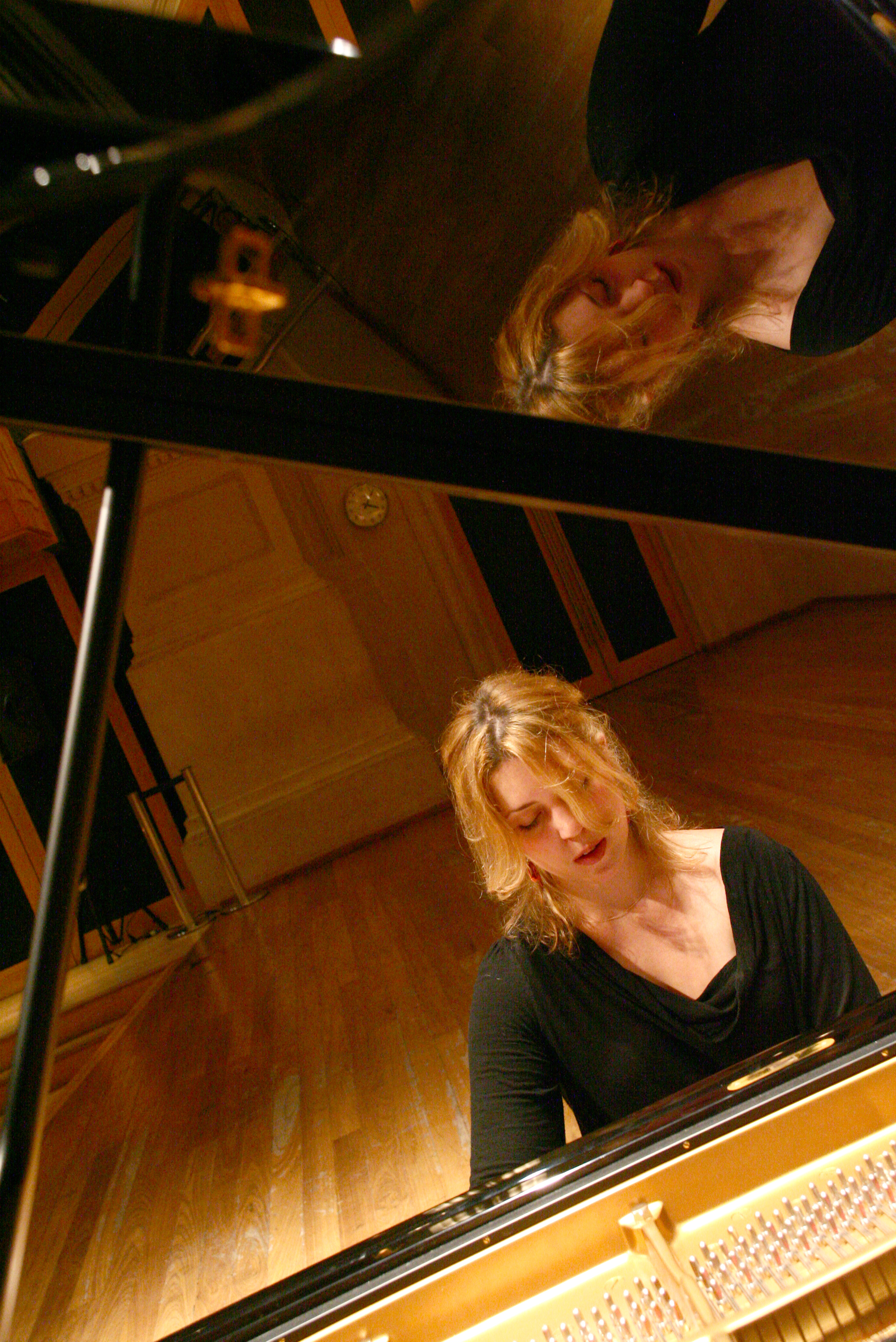 Gabriela Montero at Sala São Paulo (march/2007)